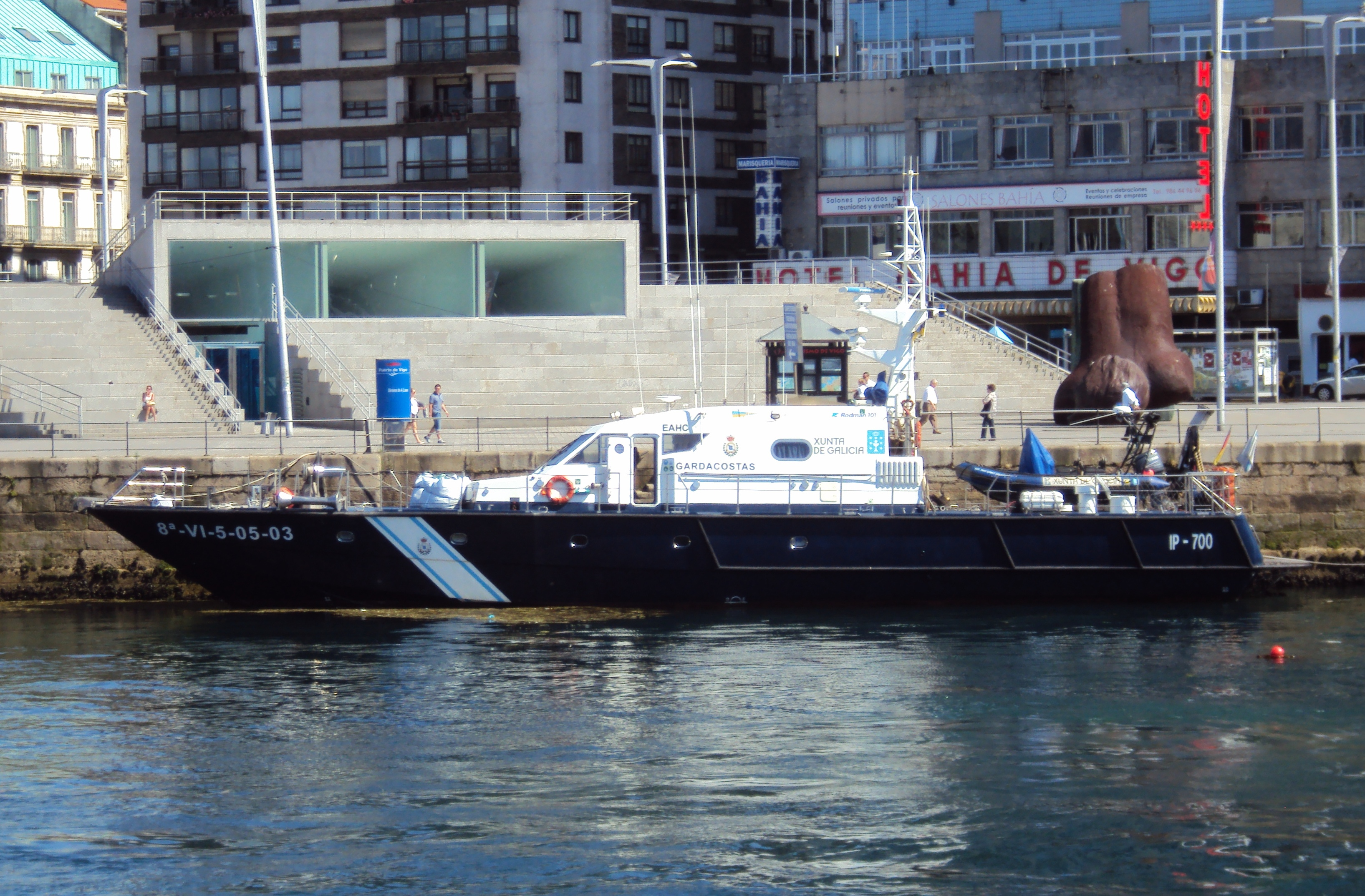 Paio Gómez Chariño (callsign EAHC, MMSI 224098480), a coastguard vessel in Vigo, Galicia, Spain.